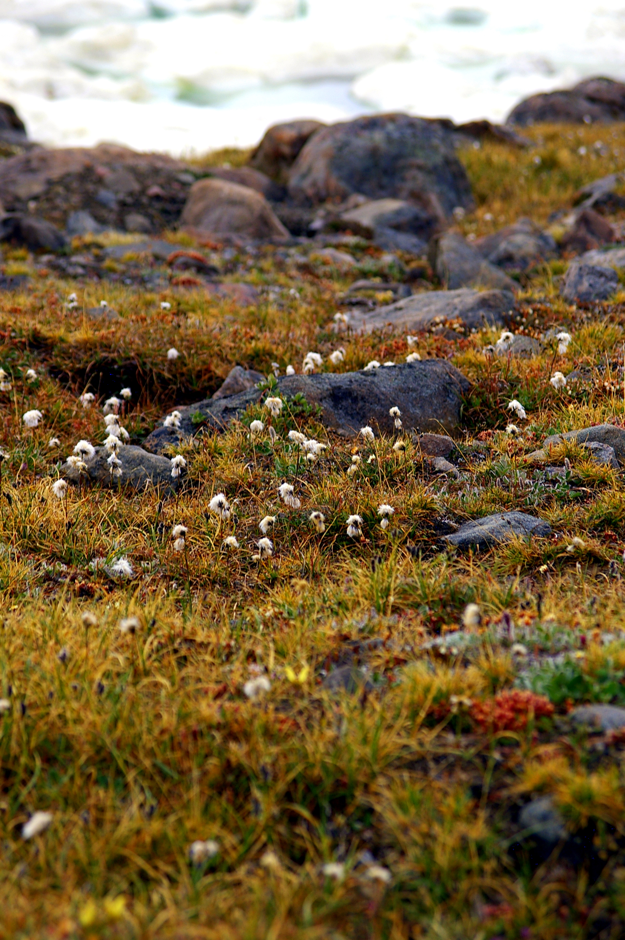 More green in Grise Fiord. So surprising for a community so far north (North of the 78th parallel). This makes me think a bit of the Scottish Highlands in a strange sort of way...